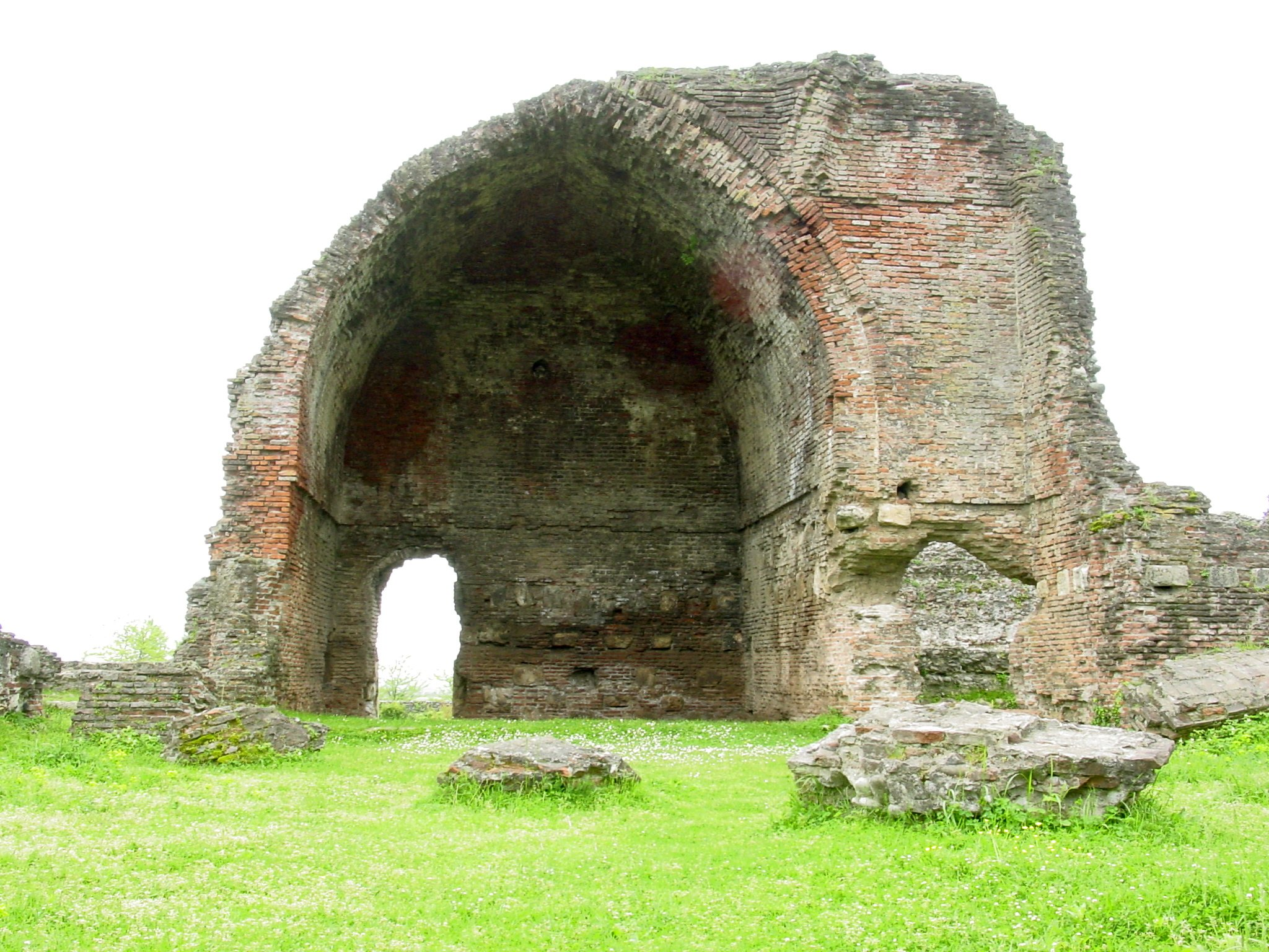 Geguti is a ruined royal palace near Kutaisi, Georgia, the main structures of which date back to the 12th century, but older, 8th-9th century layers, have also been identified.